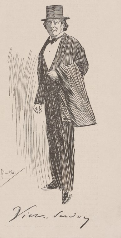 Victorien Sardou, French playwright, sketched in 1899